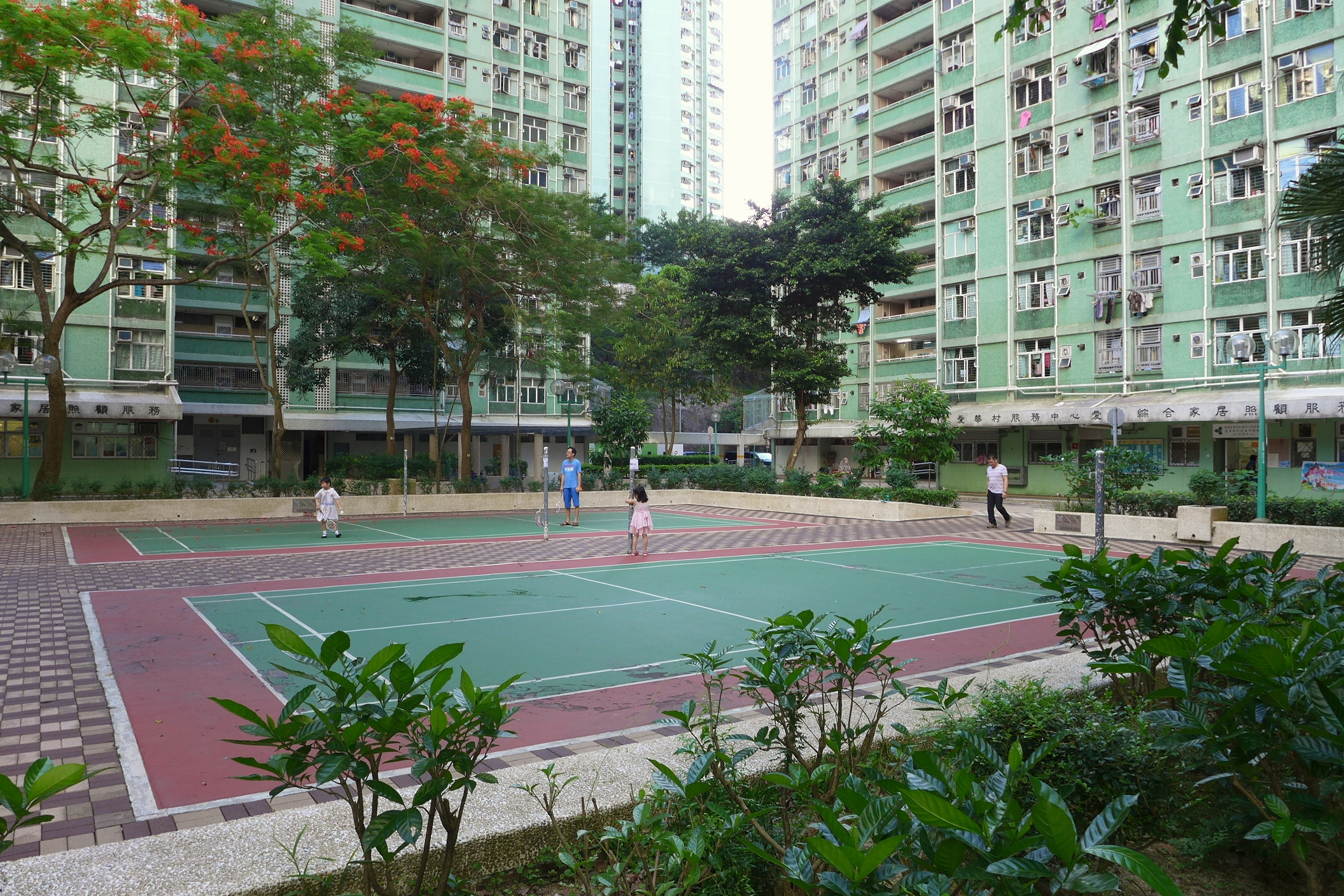 Siu Sai Wan Estate Phase2 Badminton Court